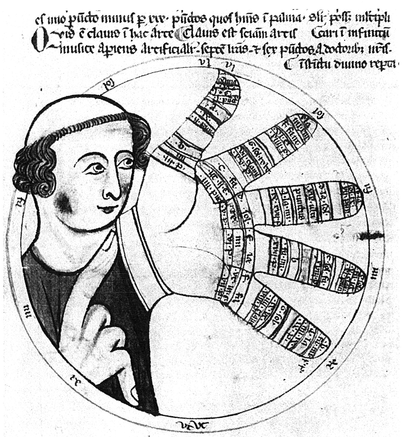 One example of a Guidonian hand drawing, including a human whose magnified fingers provides the "diagram". Note how the solmization sequence ut-re-mi-fa-sol-la appears both on the enclosing circle and on the hand itself.